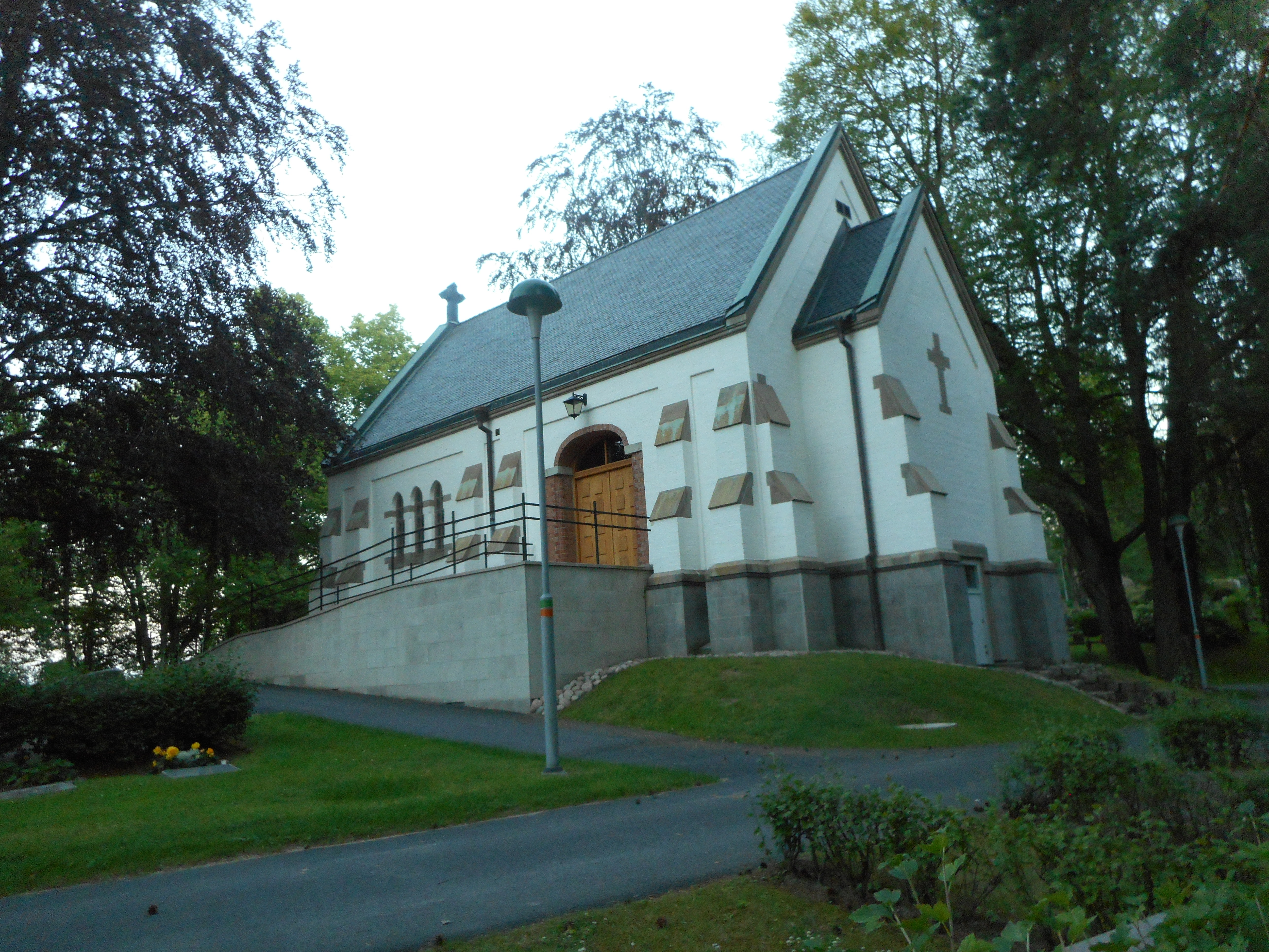 The chapel building of "Skogskyrkogårdens kapell" at Badstugatan in Karlskoga, Karlskoga Municipality